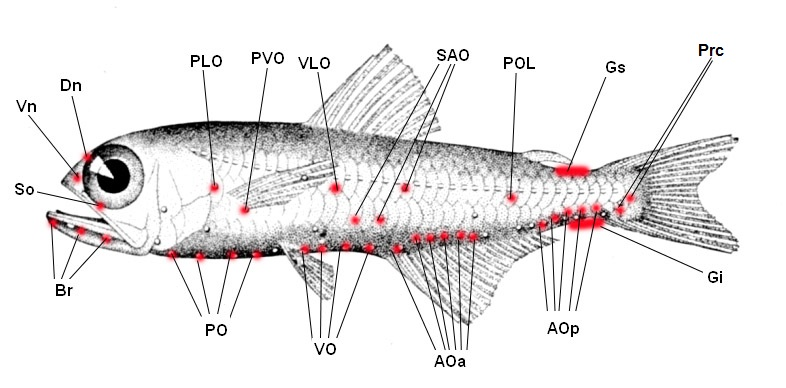 Hygophum hygomii. From plate 22 of Oceanic Ichthyology by G. Brown Goode and Tarleton H. Bean, published 1896. This work is in the public domain in its country of origin and other countries and areas where the copyright term is the author's life plus 100 years or less. You must also include a United States public domain tag to indicate why this work is in the public domain in the United States. This file has been identified as being free of known restrictions under copyright law, including all related and neighboring rights. From [1]